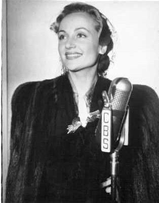 Carole Lombard during a performance on CBS Radio in 1930s.